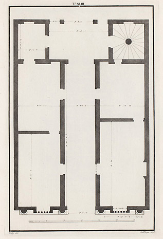 Palazzo Schio in Vicenza. Facade designed by Andrea Palladio, 1560. From Ottavio Bertotti Scamozzi ,1776